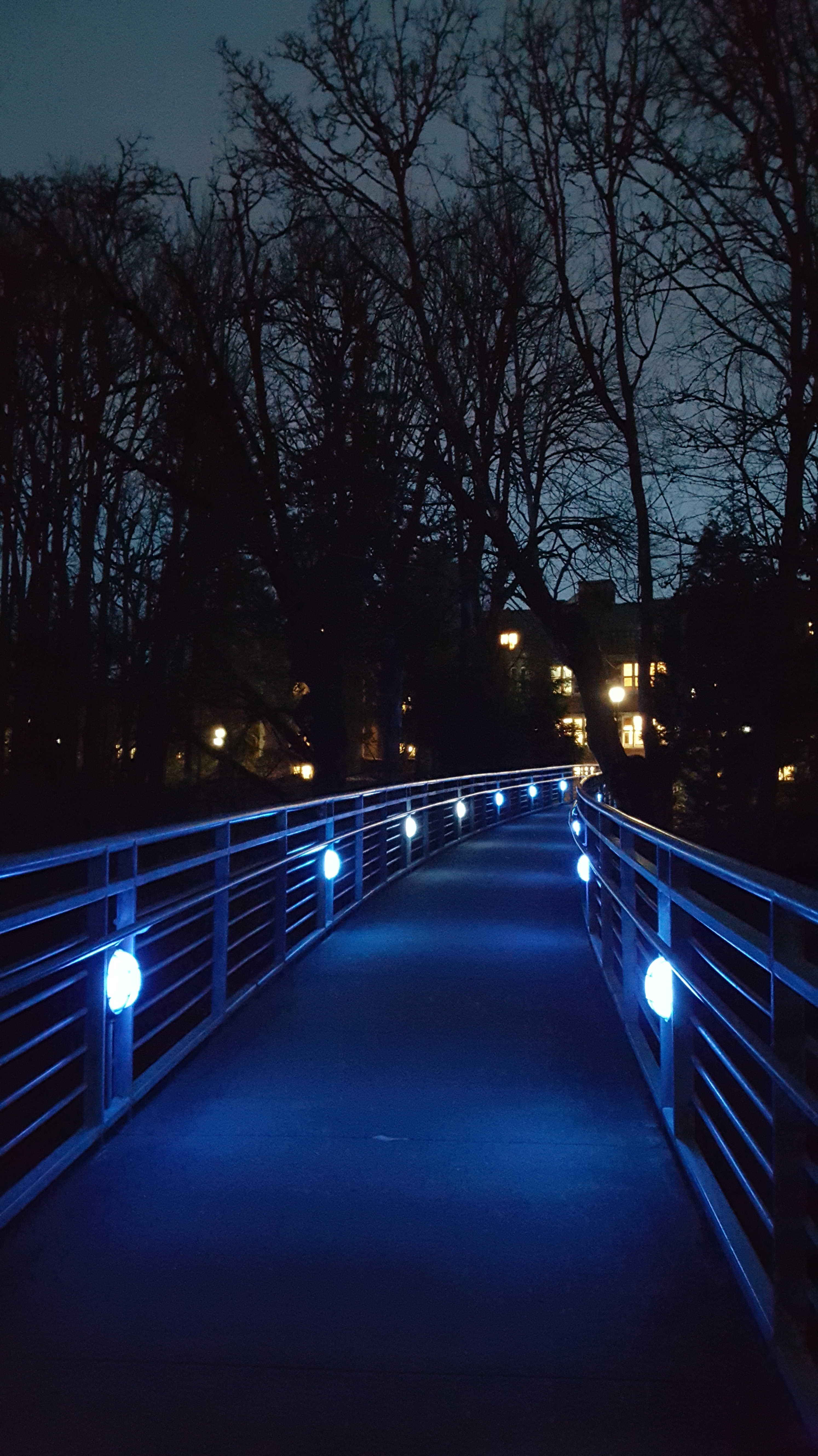 Blue Bridge, Reed College, Portland, Oregon